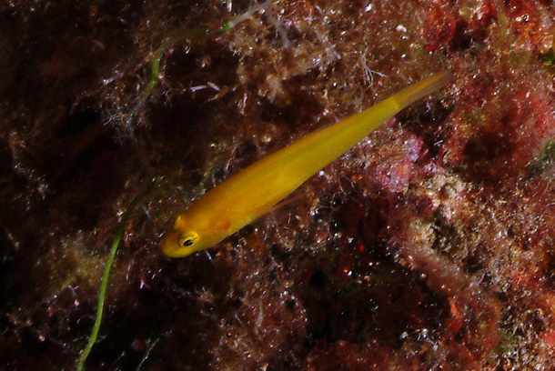 Gobius auratus photographed on Tuscany coast (Italy). Photo by Stefano Guerrieri.